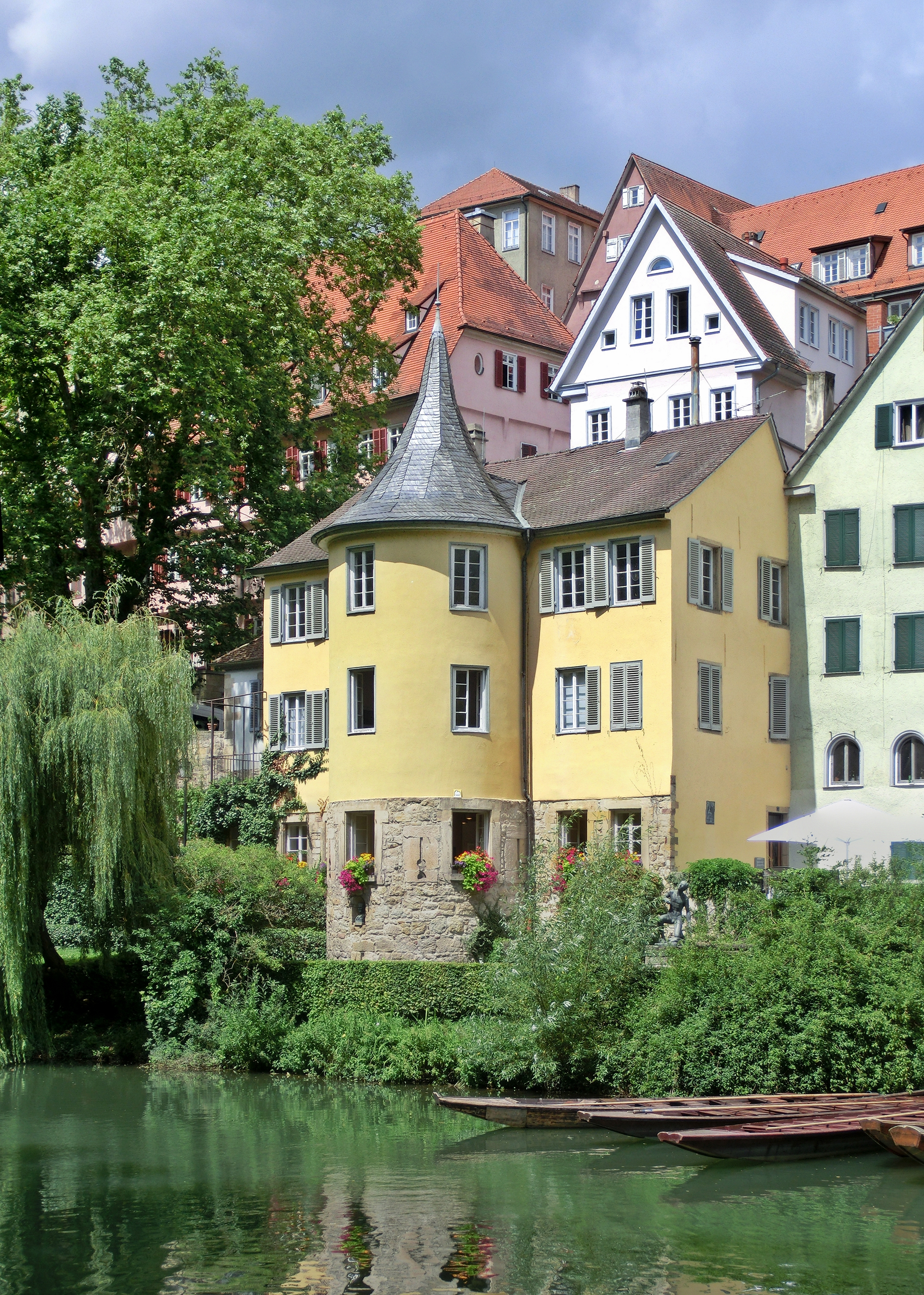 The Hölderlinturm on the Neckar riverfront in Tübingen, Baden-Württemberg.